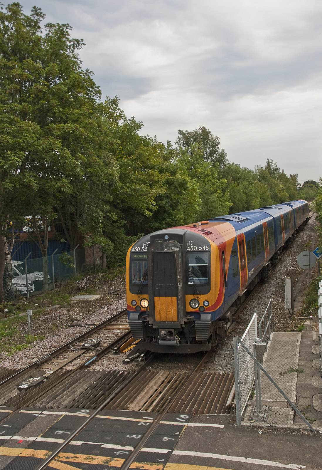 South West Trains 450545 arrives at Chertsey.